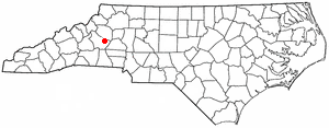 Category:North Carolina Dot Maps